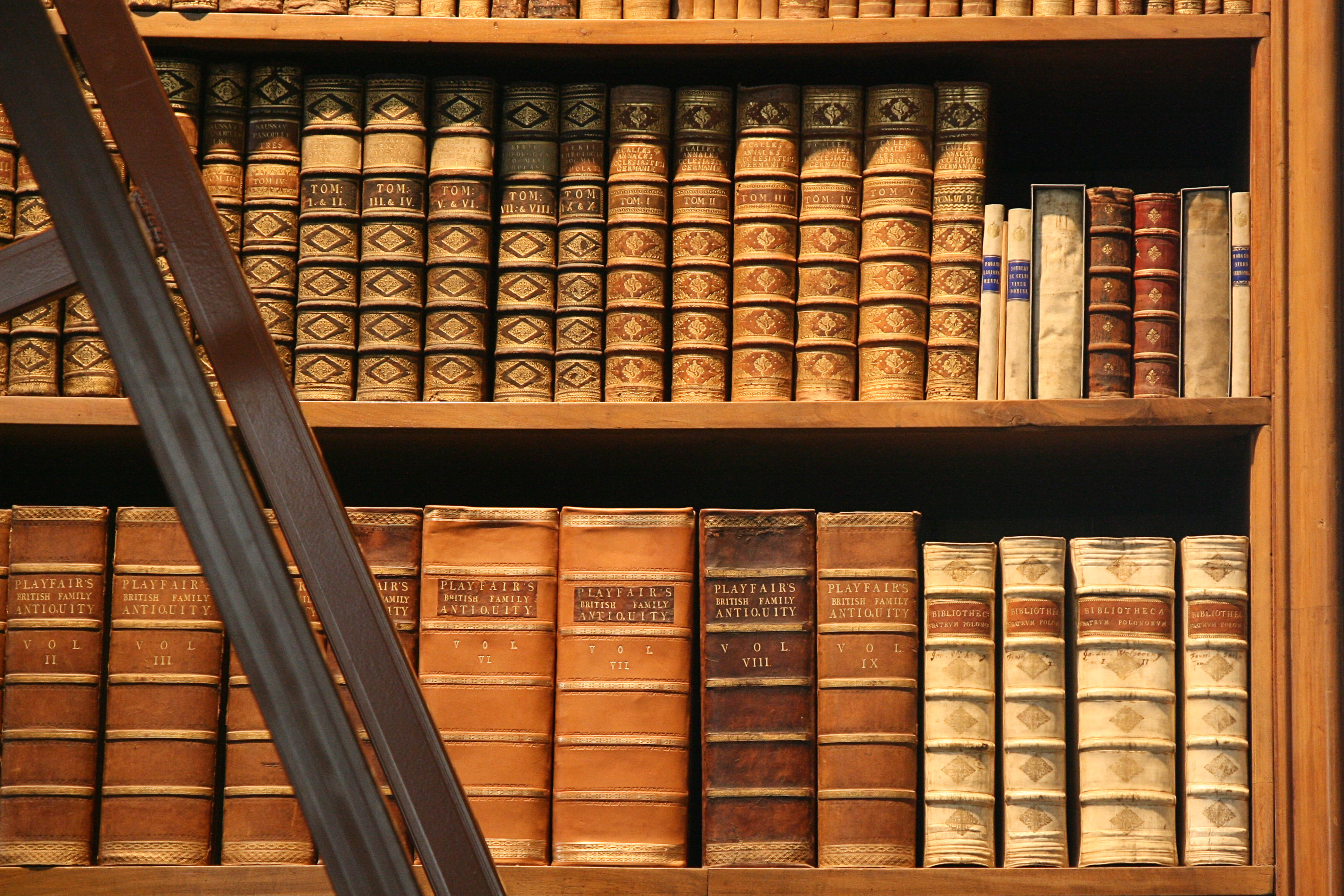 Historic works in a Bookshelf in the Prunksaal (State Hall) of the Imperial Library of the Austrian National Library in Vienna.